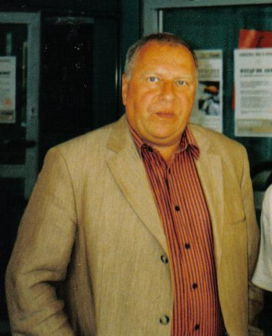 Polish actor and film director Jerzy Stuhr (born 1947).